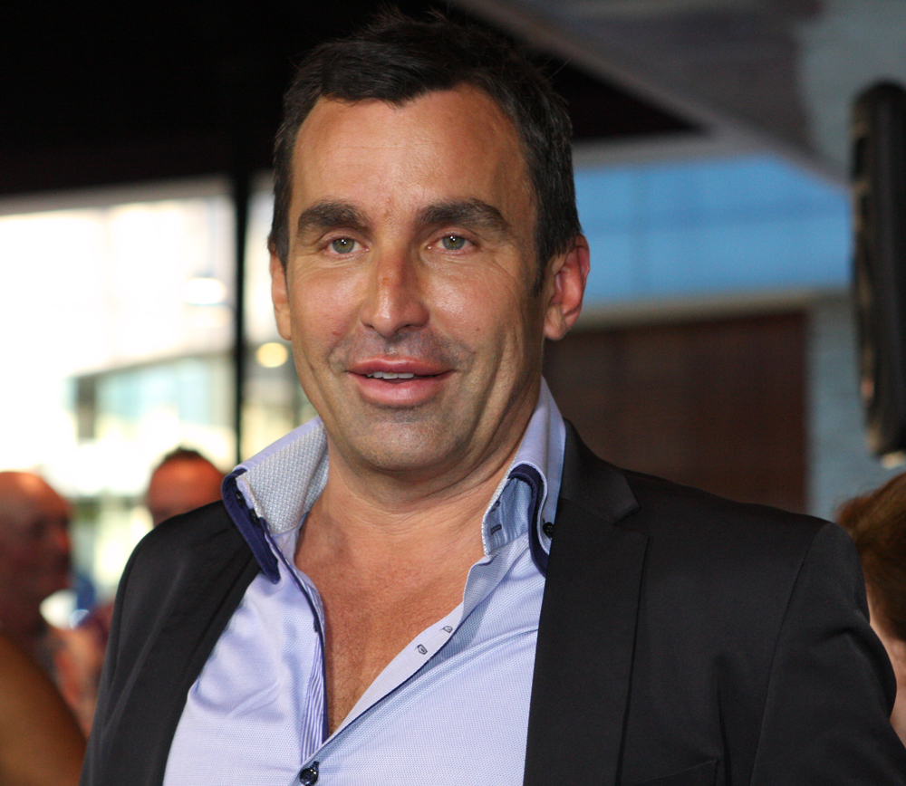 A Few Best Men Red Carpet Movie Premiere In Sydney, Australia A Few Best Men enjoyed its Sydney red carpet premiere earlier this evening at Bondi Junction's Event Cinema. In essence, it's a a comedy about a groom and his three best men who travel to the Australian outback for a wedding. The flick has numerous Sydney based media men and women tipping that this may be just the start of a reinvigoration of Olivia Newton-John's acting career, but its really too early to know for sure. Maybe O-N-J and her agent know something we don't. Twilight Eclipse hunk Xavier Samuel stars as the film's hapless bridegroom. British thespians Kris Marshall (Death At A Funeral) Kevin Bishop (Spanish Apartment), and Australian comedy star Rebel Wilson was there, as was Laura Brent (Chronicles of Narnia), Steve Le Marquand (Beneath Hill 60) and Tangle actor Tim Draxl. Even local MP Malcolm Turnbull and wife Lucy showed up in support. The flick, which was filmed in Sydney and the Blue Mountains, is hoped to be a return to form for Elliott, who has had mixed success since his 1994 smash hit The Adventures of Priscilla: Queen of the Desert. It's quite an unlikely acting platform for Newton-John, who many film industry commentators say her last decent film role was alongside John Travolta in Two of a Kind back in 1983. Elliott told the media that the Aussie singer/actress has fitted in well with the rest of the cast. "She's great. Everyone's coming together really well and she's really getting into it," he said. A Few Best Men opens in cinemas nationally on January 26, 2012. Director: Stephan Elliott Writers: Dean Craig Stars: Rebel Wilson, Olivia Newton-John and Xavier Samuel Websites A Few Best Men official website Icon Film Distribution Event Cinemas Nix Co Eva Rinaldi Photography Flickr Eva Rinaldi Photography Splash News Music News Australia